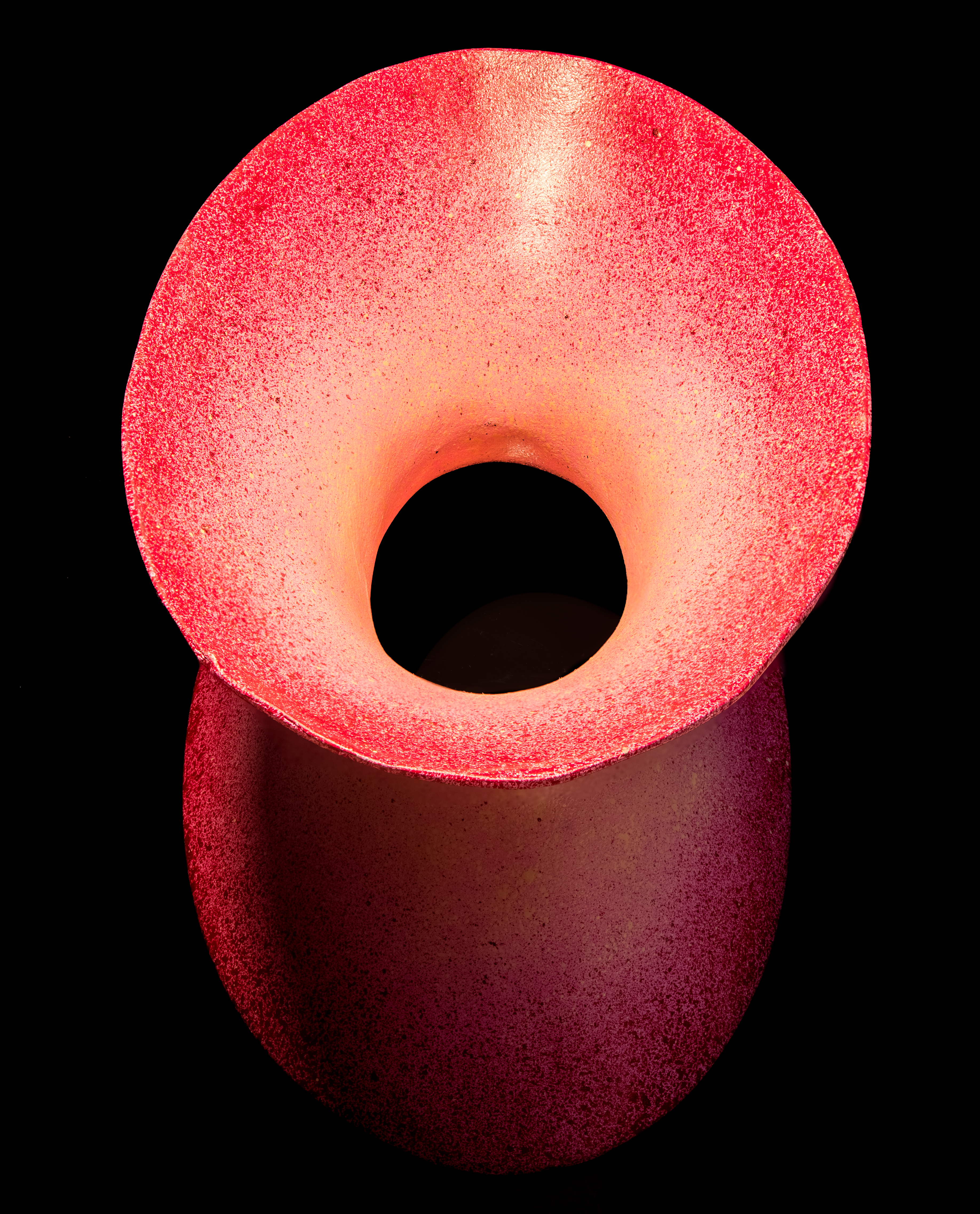 Mathematical surface which the boundaries are three ellipses.